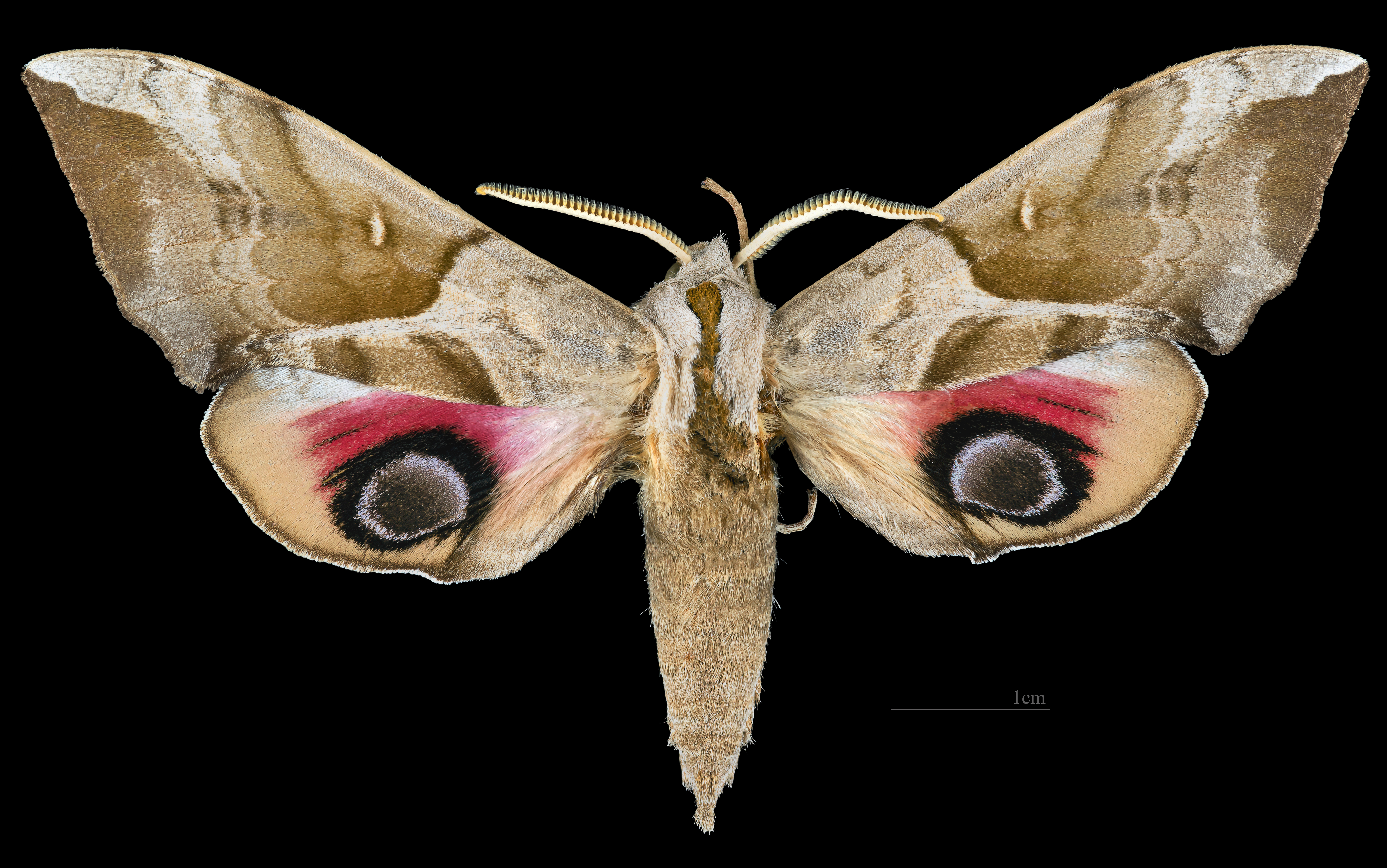 Smerinthus planus - Dorsal side Collection of the Mathematician Laurent Schwartz